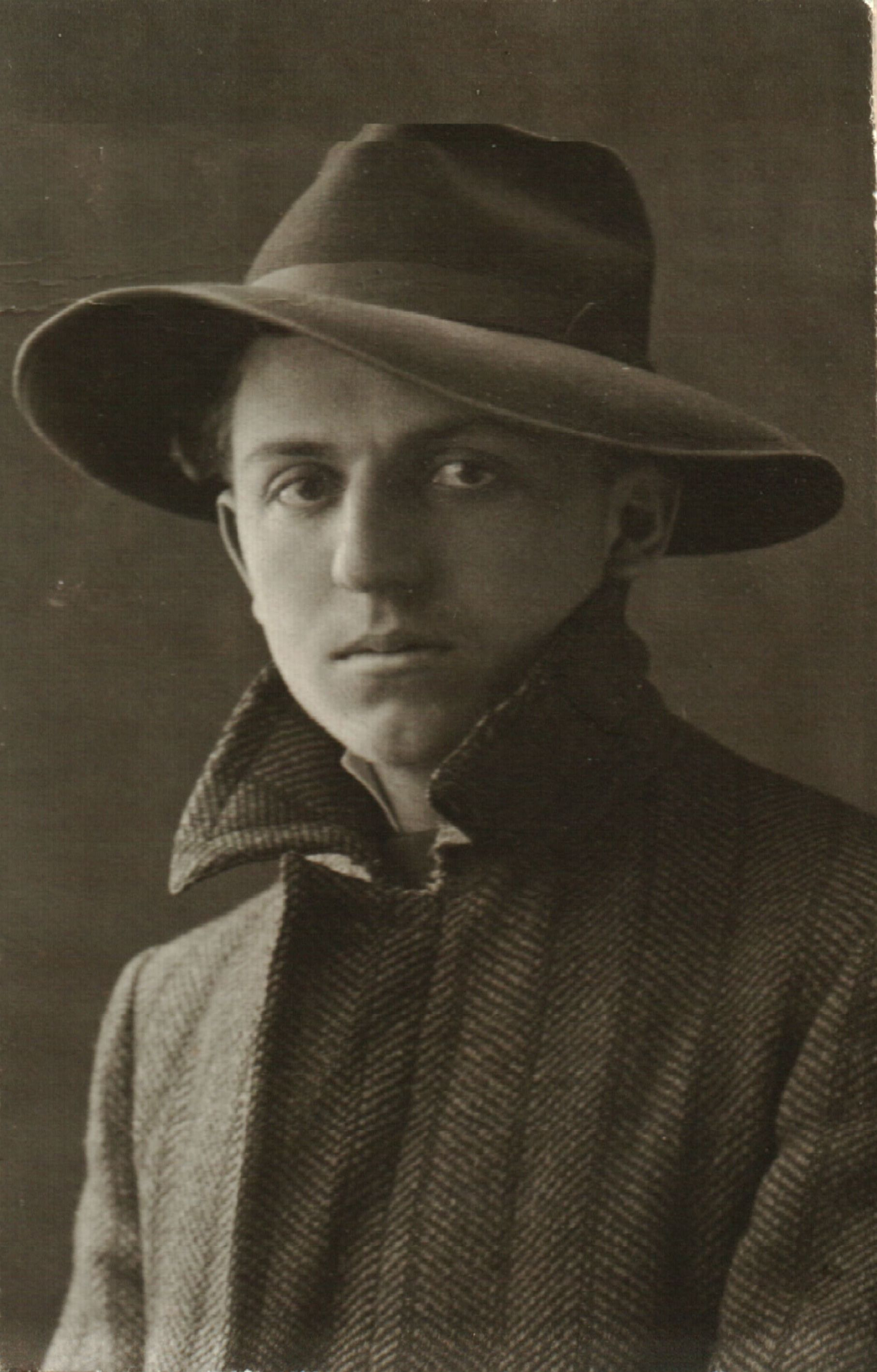 Bulgarian writer Konstantin Konstantinov with autographed for Grigor Vassilev.